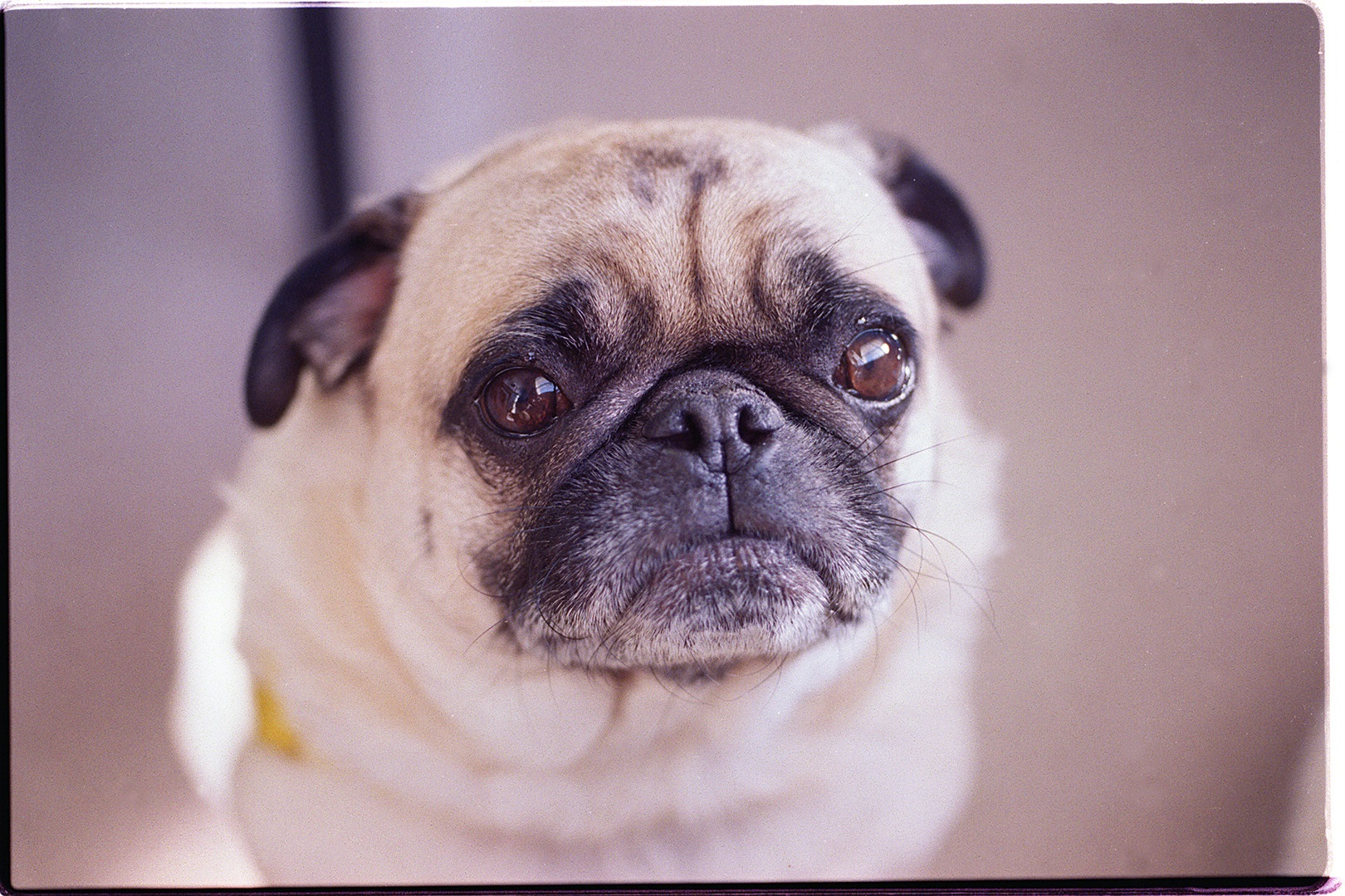 A PUG dog. Photo by Nancy Wong